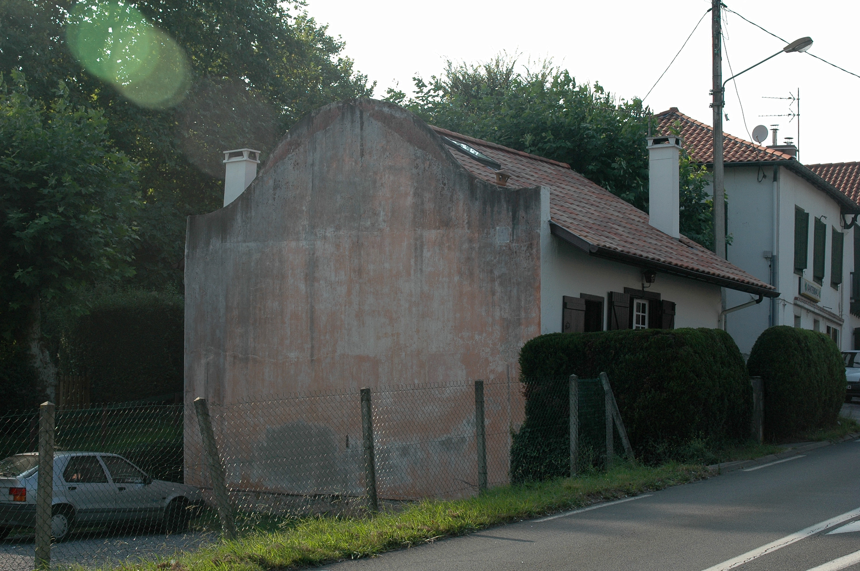 Bassussarry, fronton court. Photo prise le 07/08/06 par Harrieta171